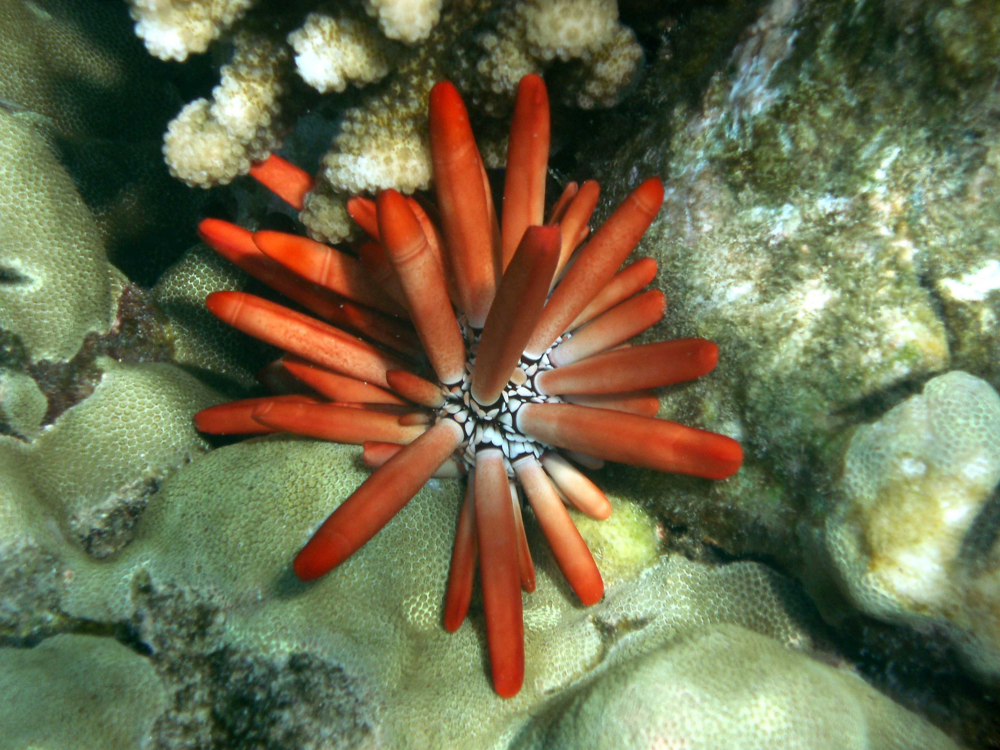 A red slate pencil urchin (Heterocentrotus mammillatus) on a coral reef on the island of Hawaii